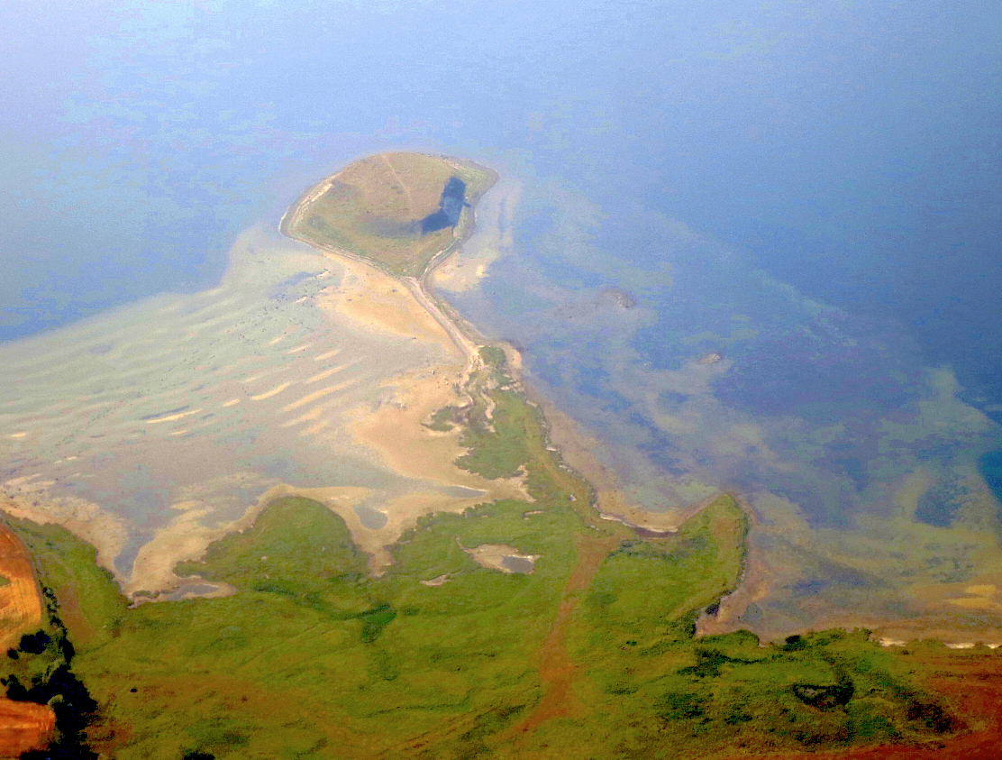 Roskilde Fjord, Denmark, the islet of Bolund (a bird's-eye view).